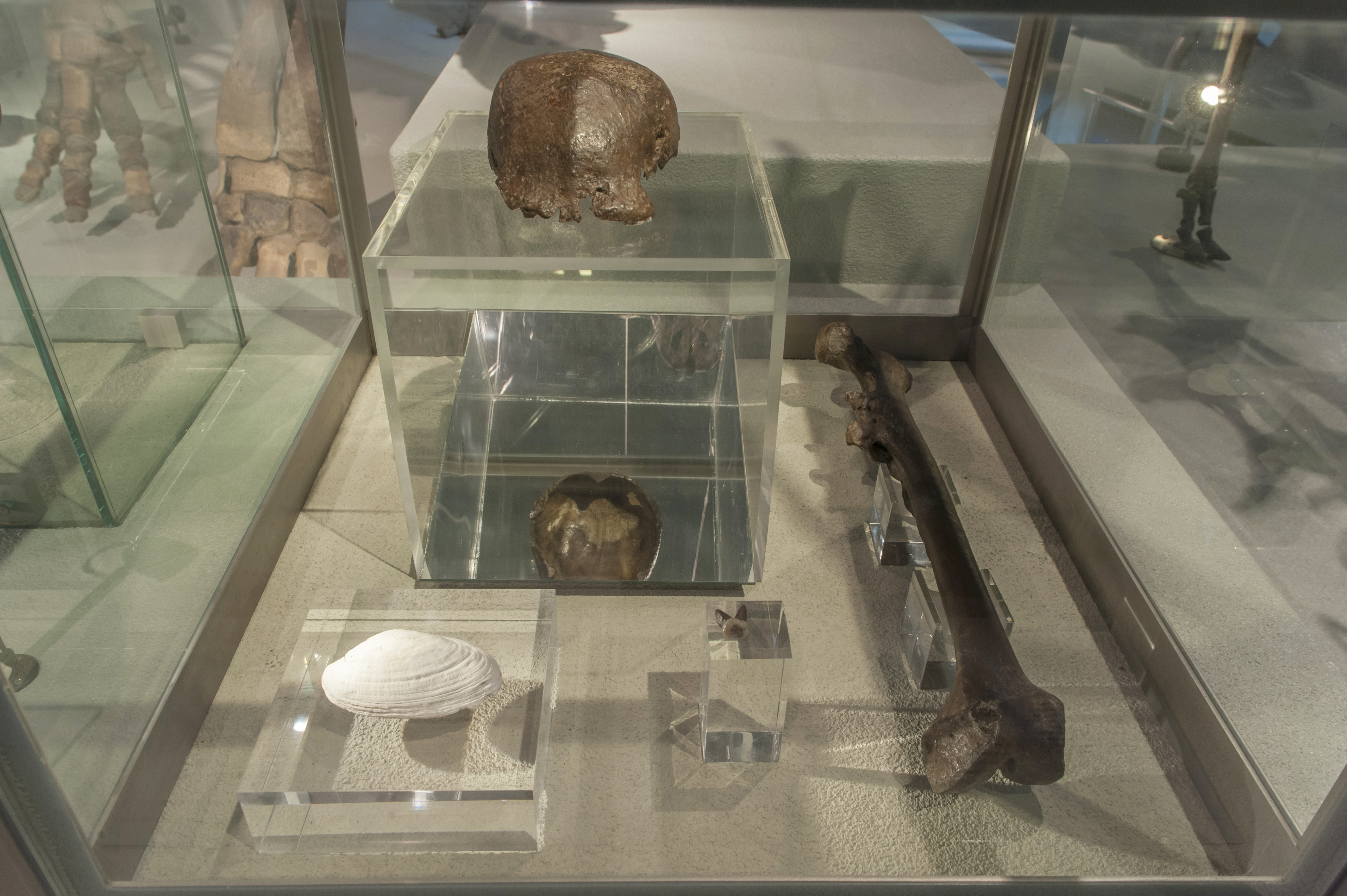 Natural history museum Naturalis, Leiden. Exhibition Primeval parade. Skull cap of Eugène Dubois' specimen of "Java man", Pithecantropus erectus, now Homo erectus.